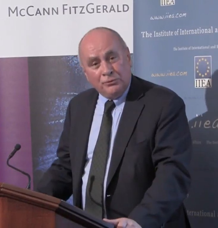 The Right Honourable David Anthony Currie, Baron Currie of Marylebone, gives a speech on Redesigning Regulatory Architecture.